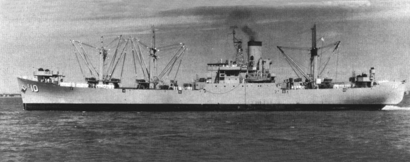 The U.S. Navy stores ship USS Aldebaran (AF-10), circa 1960.